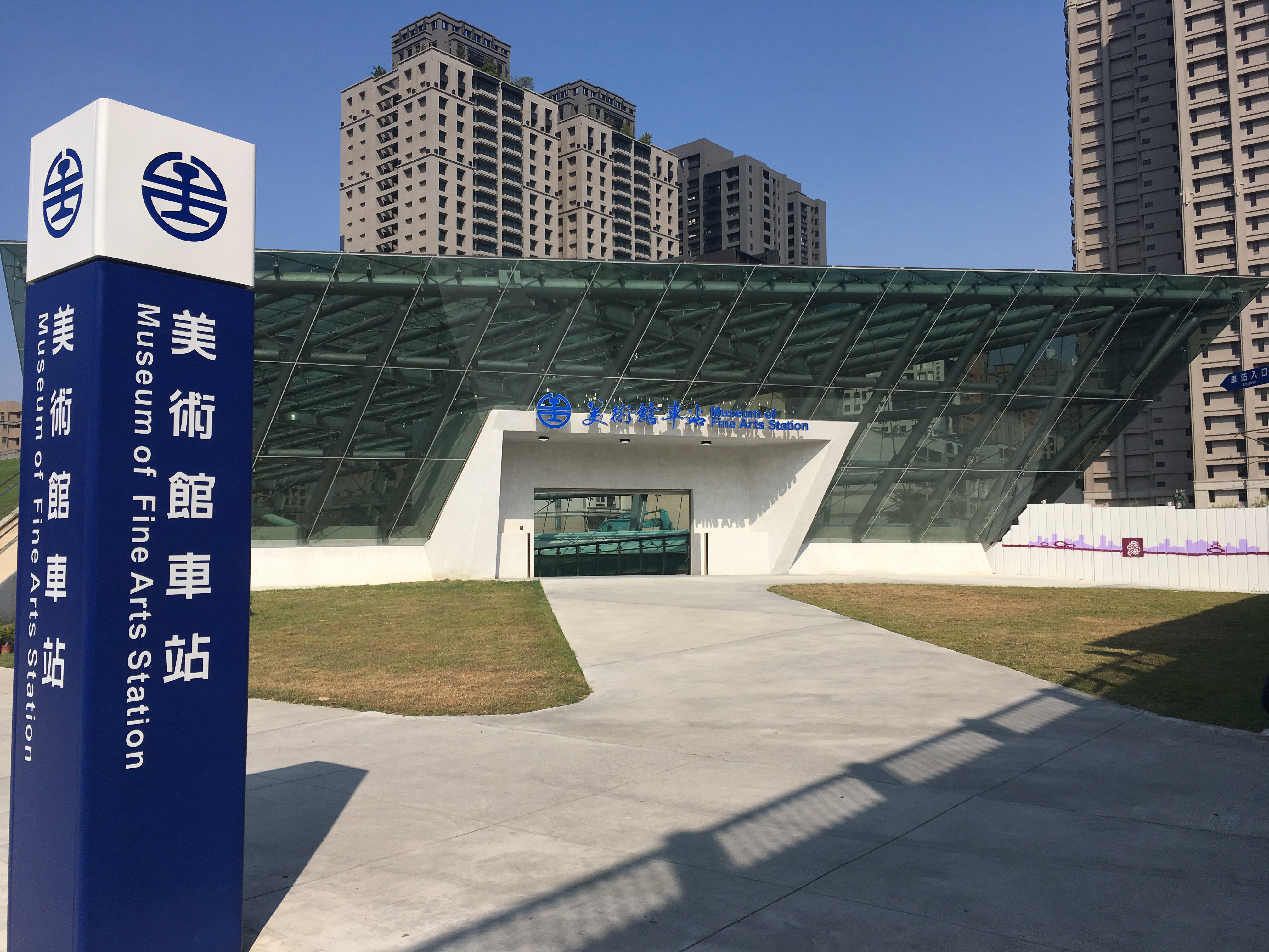 South entrance of TRA FineArtMuseum station.